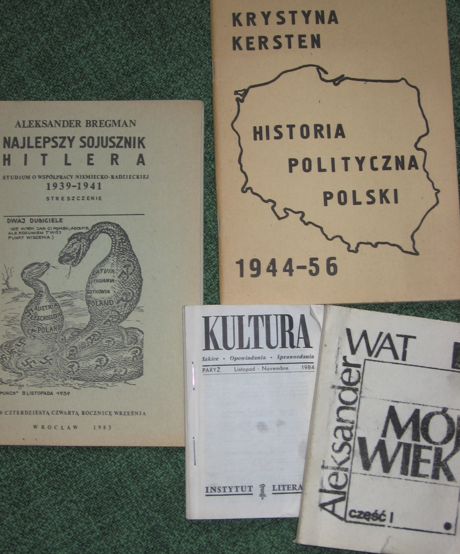 Polish samizdat books & brochures printed in 1980's